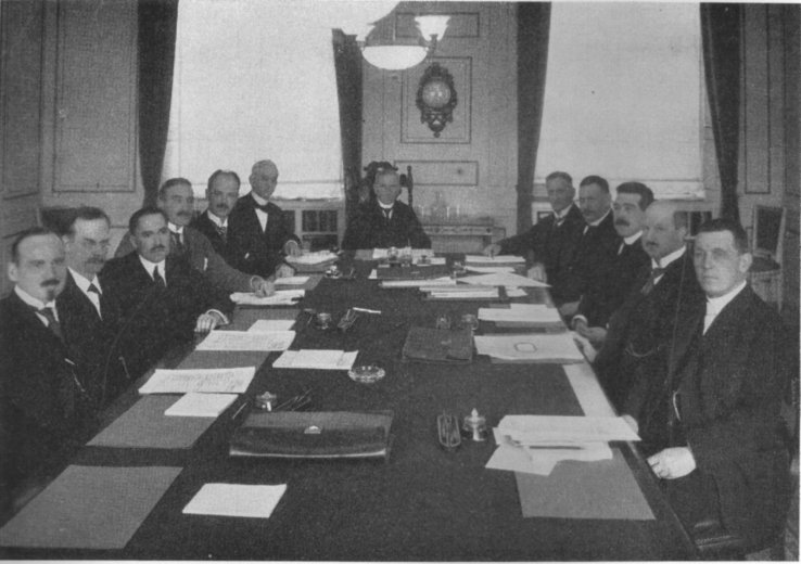 Cabinet of Ernst Trygger 1923-1924